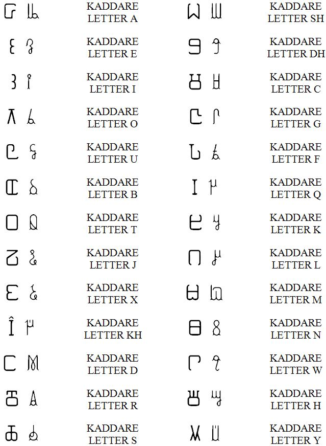 Kaddare Alphabet Chart